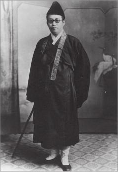 Buddist monk of Korea, Posan(1912-1959), realname was Dalsun Yun